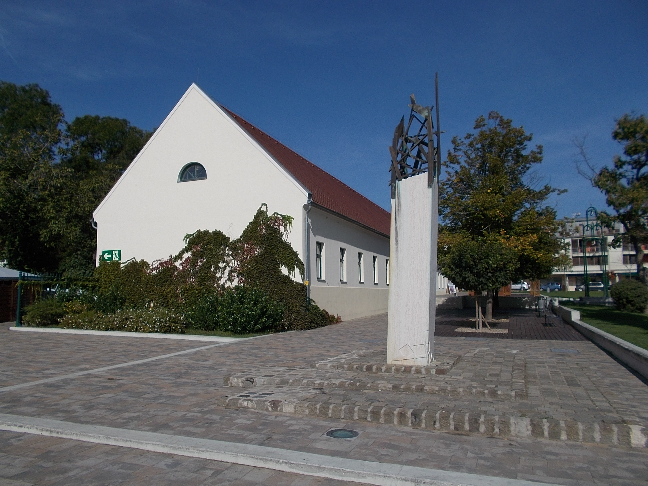 Golem statue Ferenc Friedrich work, 2006. and the eastern part of Wimpffen-mansion complex ID 7012. - Fő Sq., Érd, Hungary